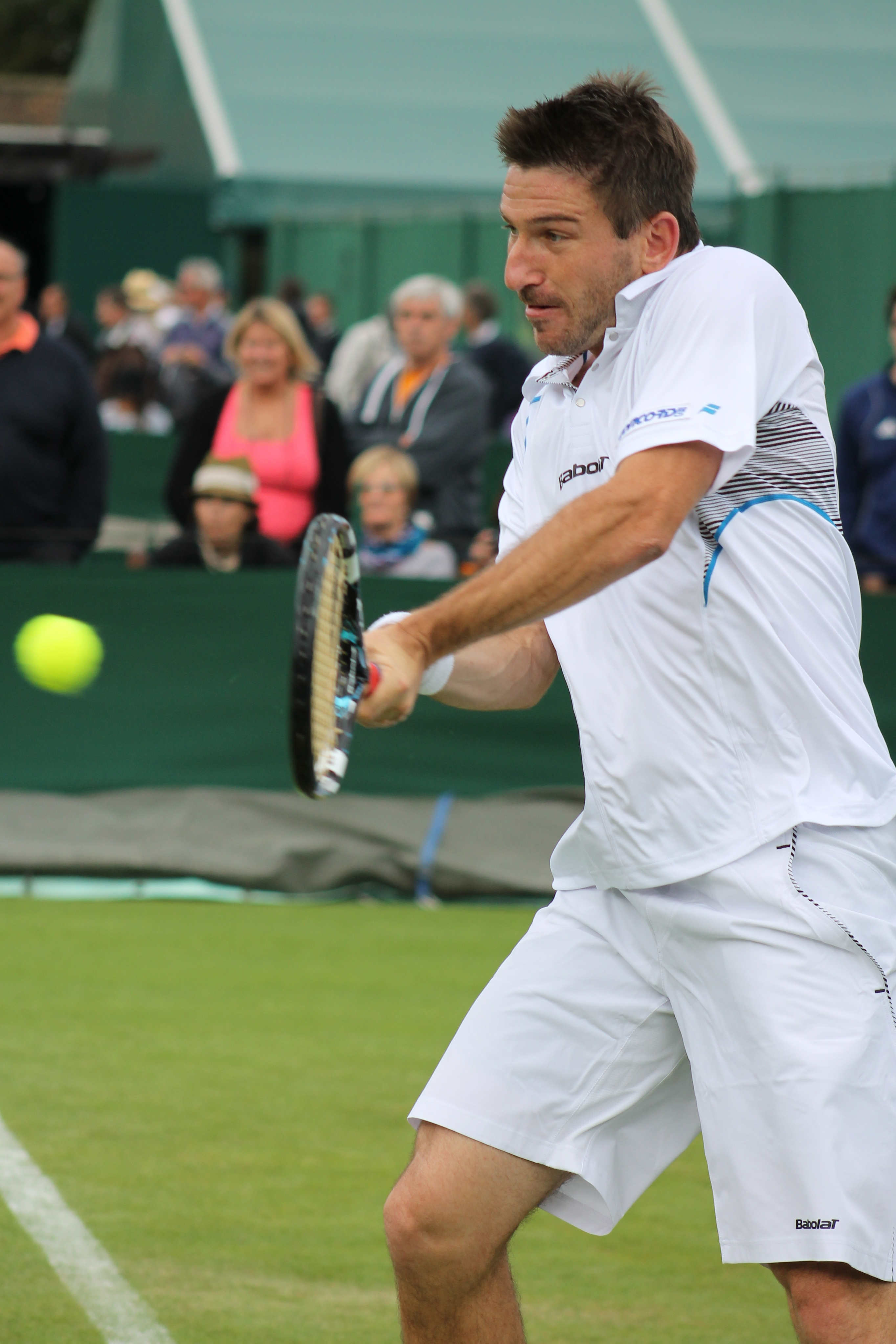 Jan Hajek playing in the Mens Singles at Wimbledon 2013, Court 5 on 24 June 2013; opponent was Nicolas Mahut (FRA)